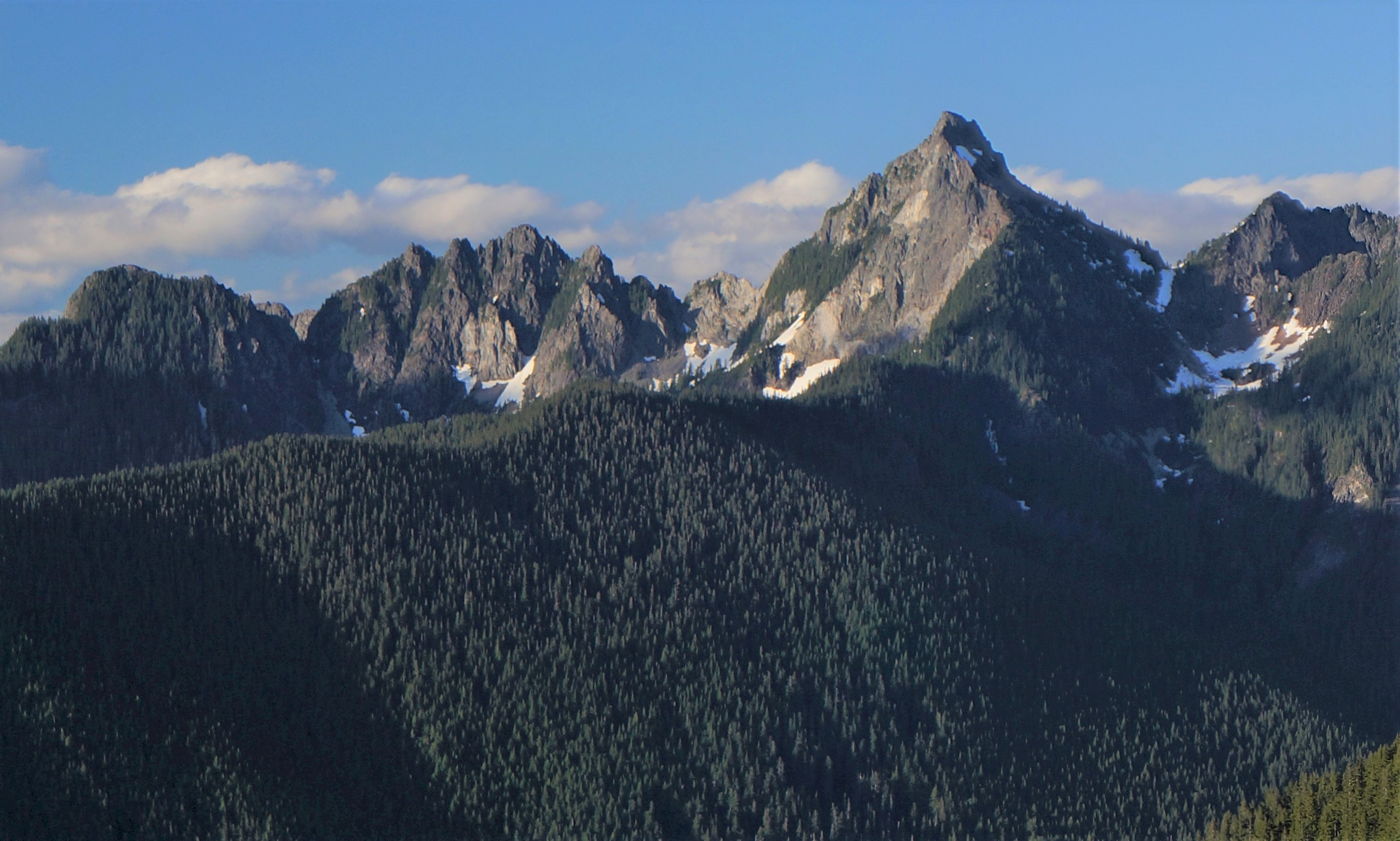 Mt. Roosevelt and Kaleetan Peak from Little Bandera